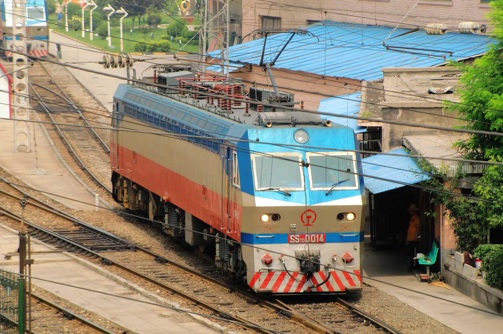 A China Railways SS7D electric locomotive in the Xi'an Locomotive Depot